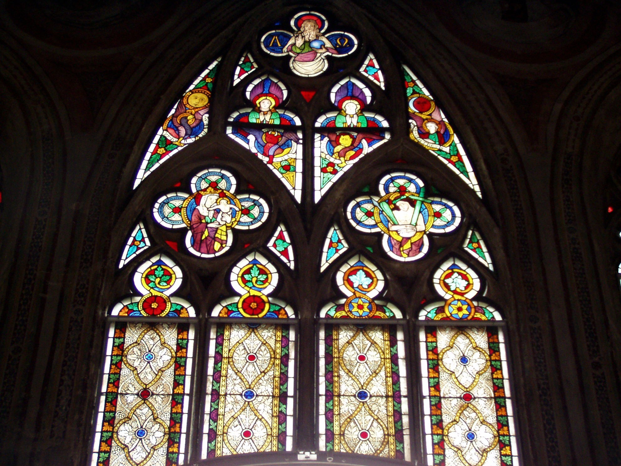 Cathedral of Gurk, glass window, main entrance/Dom zu Gurk: Glasfenster Hauptportal